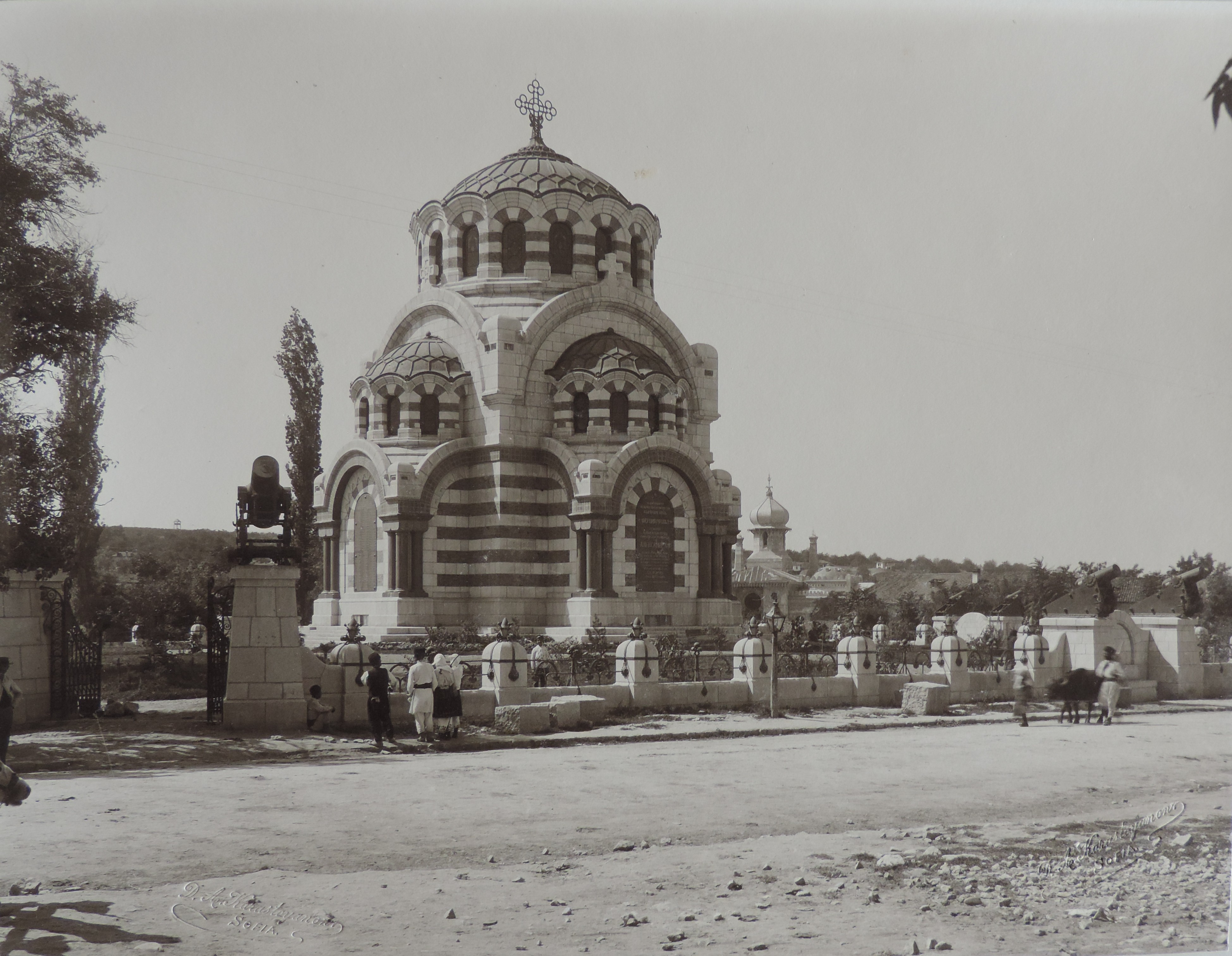 Historic military photos. St. George the Conqueror Chapel Mausoleum in Pleven, Bulgaria.